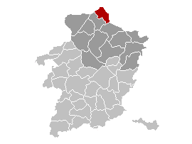 Map, municipality belgium Hamont-Achel.